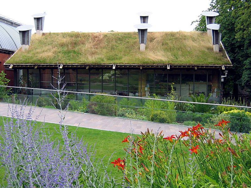 CUE building with green roof at the Horniman Museum, London.